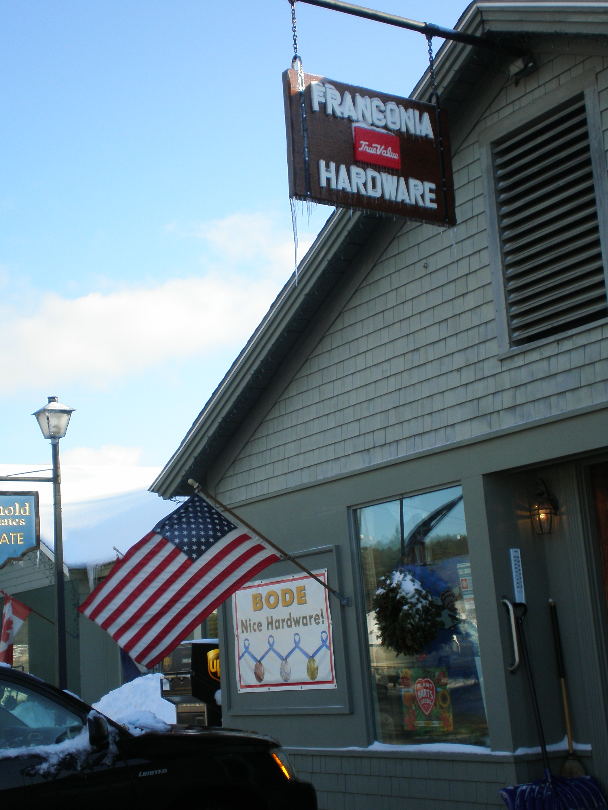 Center of Town celebrating Bode Miller